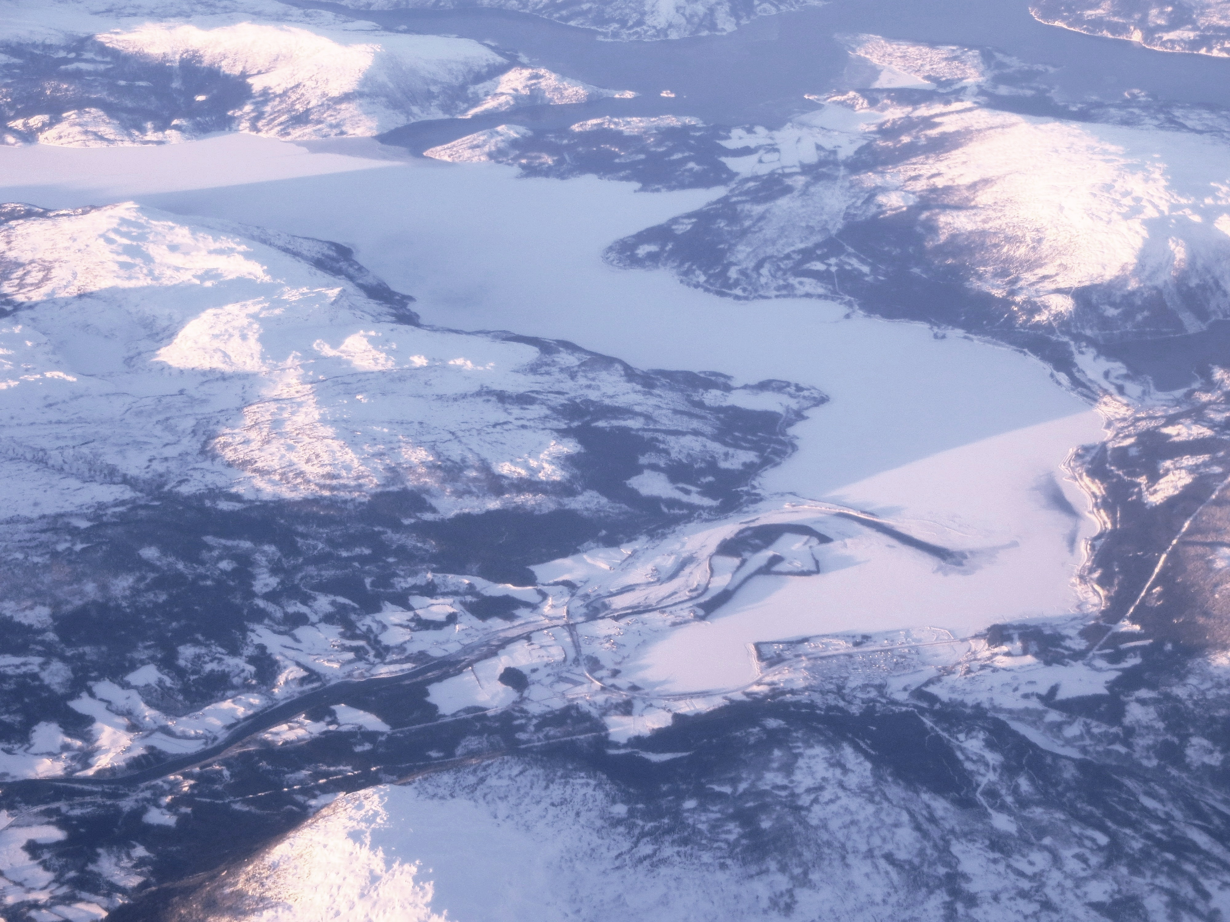 Aerial view from the east towards west, of Hemnes municipality in the central part of the fjord Rana. In Nordland county, Norway.